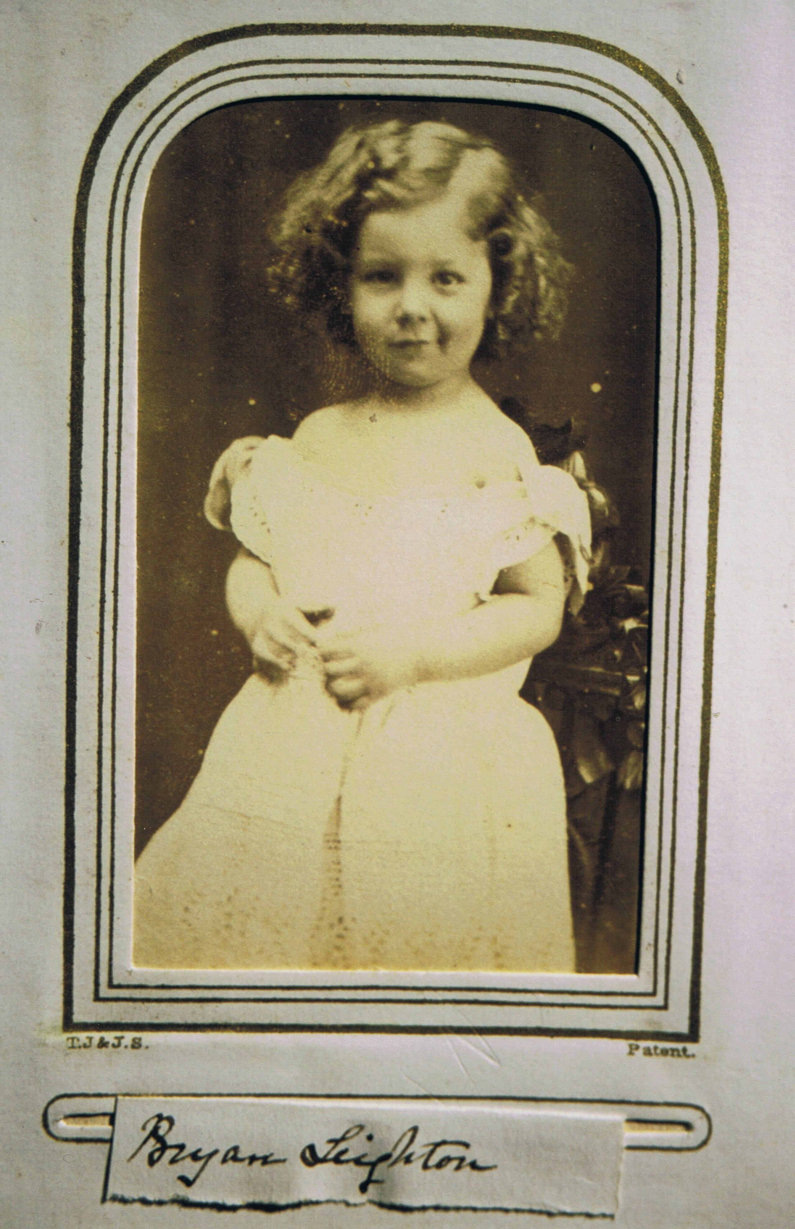 scan of a photo (R. de Salis, Oct. 2009) of a c.1870 photo of Bryan Leighton of Loton. From an album put together by William & Emily Fane de Salis. William was a great-uncle of the boy.Rodolph (talk) 23:17, 1 December 2009 (UTC)